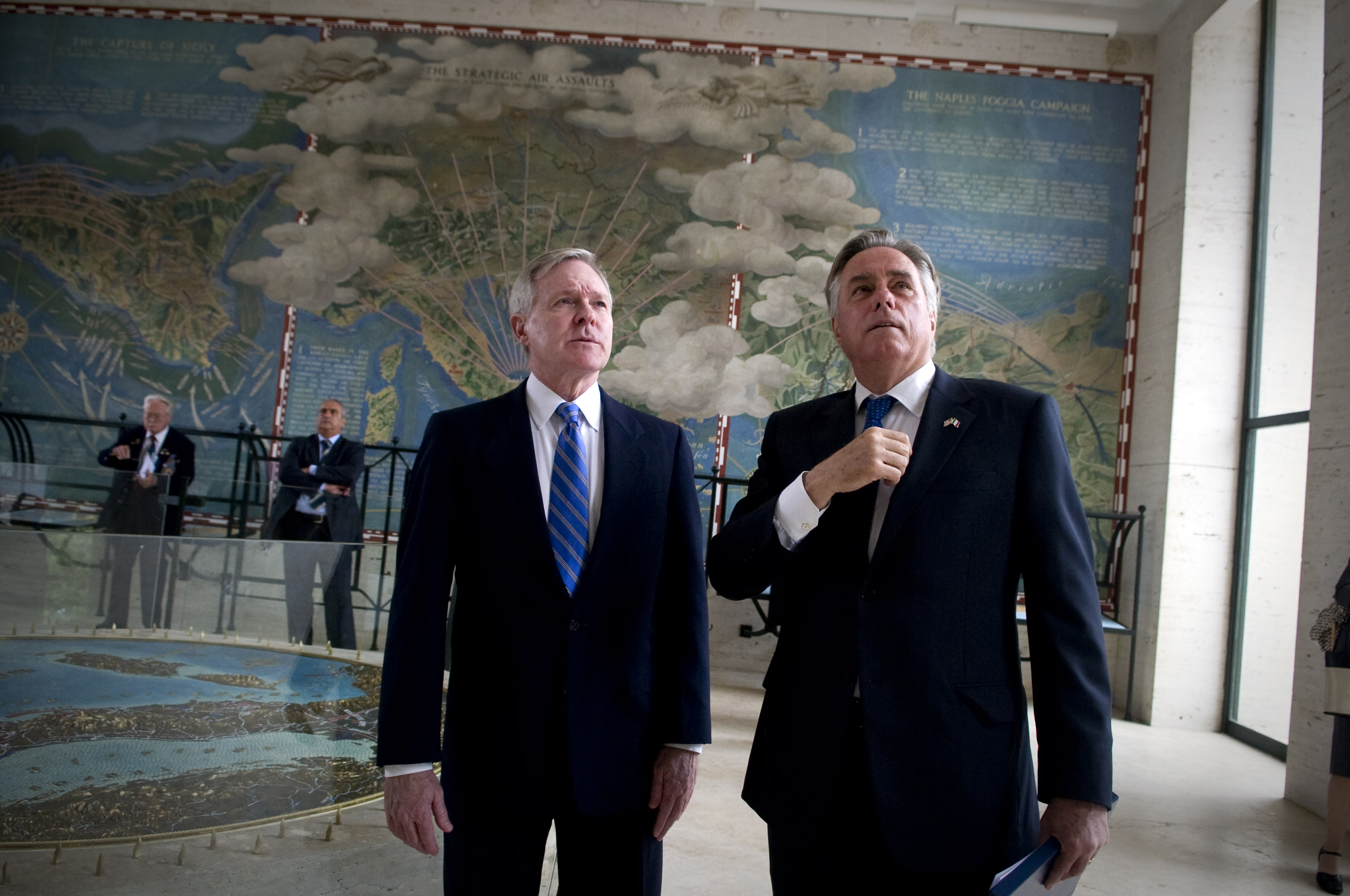 NETTUNO, Italy (May 31, 2010) Secretary of the Navy (SECNAV) the Honorable Ray Mabus, left, and U.S. Ambassador to Italy David Thorne, meet before the Memorial Day commemoration ceremony in Nettuno Italy. (U.S. Navy photo by Mass Communication Specialist 2nd Class Kevin S. O'Brien/Released)